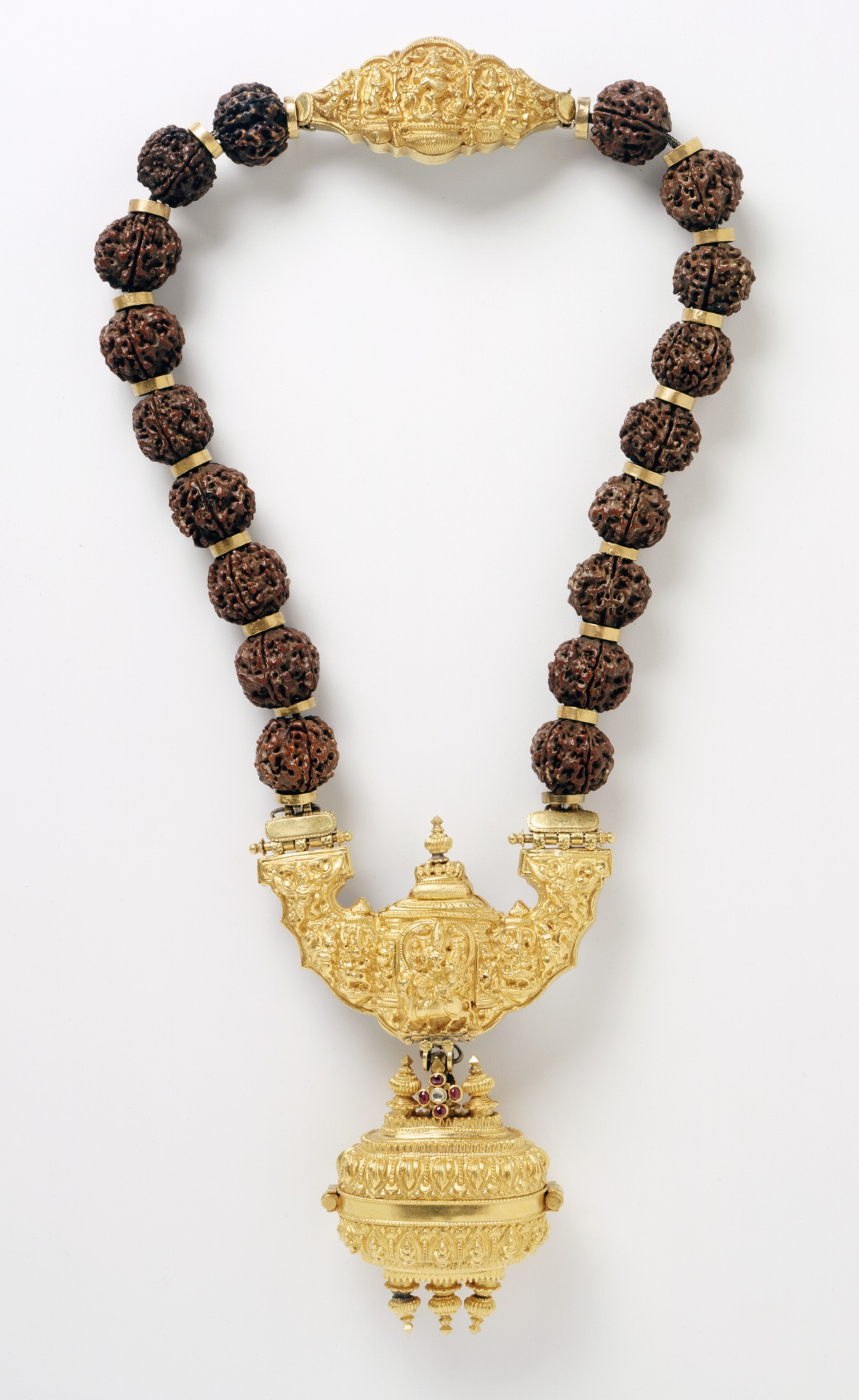 India, Tamil Nadu, late 19th century Jewelry and Adornments Gold inlaid with rubies and a diamond; Rudraksha (eye of Rudra/Shiva) beads (elaeo carpus seeds); silver back plate on clasp Purchased with funds provided by Harry and Yvonne Lenart (M.85.140) South and Southeast Asian Art Currently on public view: Ahmanson Building, floor 4